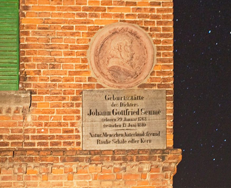 Seume House with commemorative plaque at Poserna. – The picture was first published in b/w in the book "Die Südharzreise" ("The South Harz Journey"), by SuKuLTuR, Berlin, in 2010. The entire book was released under CC by-nc-sa 3.0, all pictures have been re-licensed under CC by-sa, see user page for details. – Picture taken with a Canon EOS 5D Mark II.